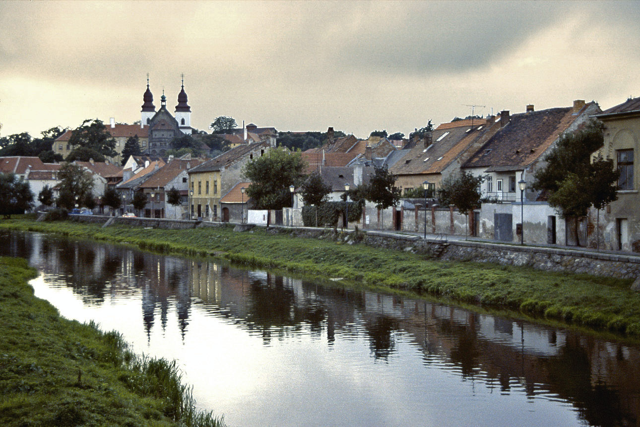 look from left Jihlava river bank to Jewish quarter and St Prokop basilica